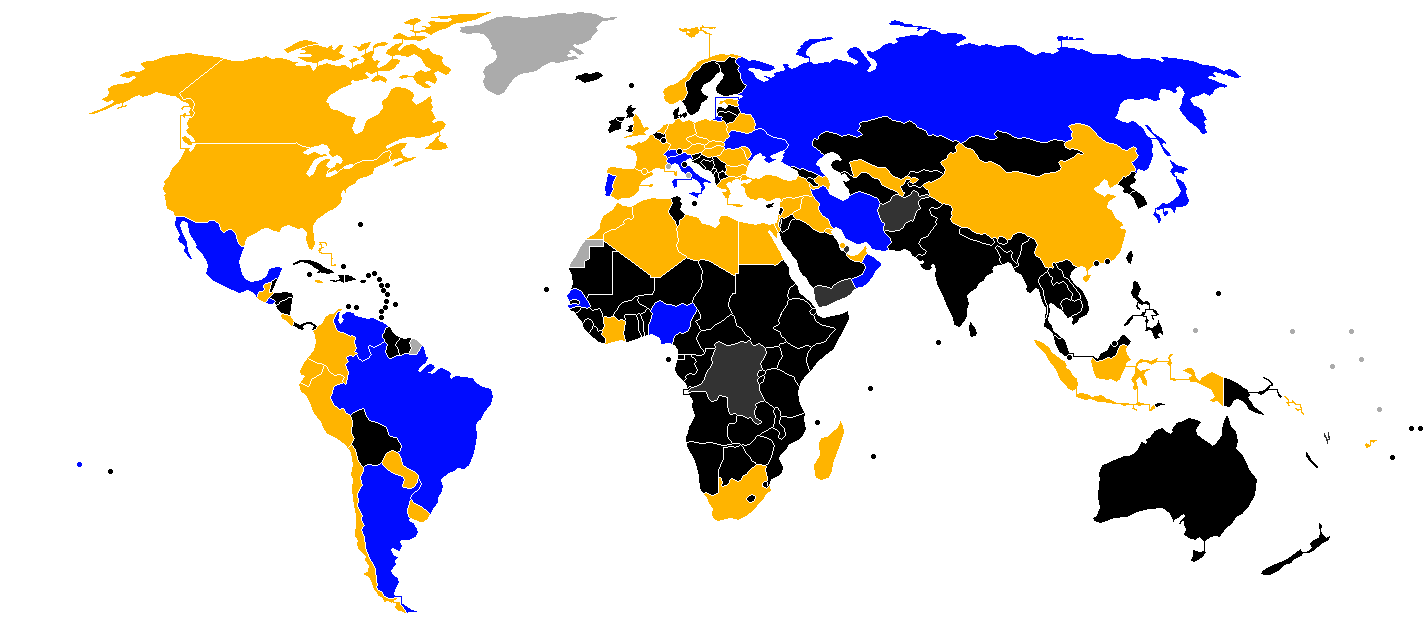 Status of countries involved in the 2011 FIFA Beach Soccer World Cup: Qualified for World Cup finals Entered qualifying rounds but failed to qualify for World Cup finals Entered qualifying rounds, but withdrew before they began Did not enter World Cup Not an associate member of FIFA